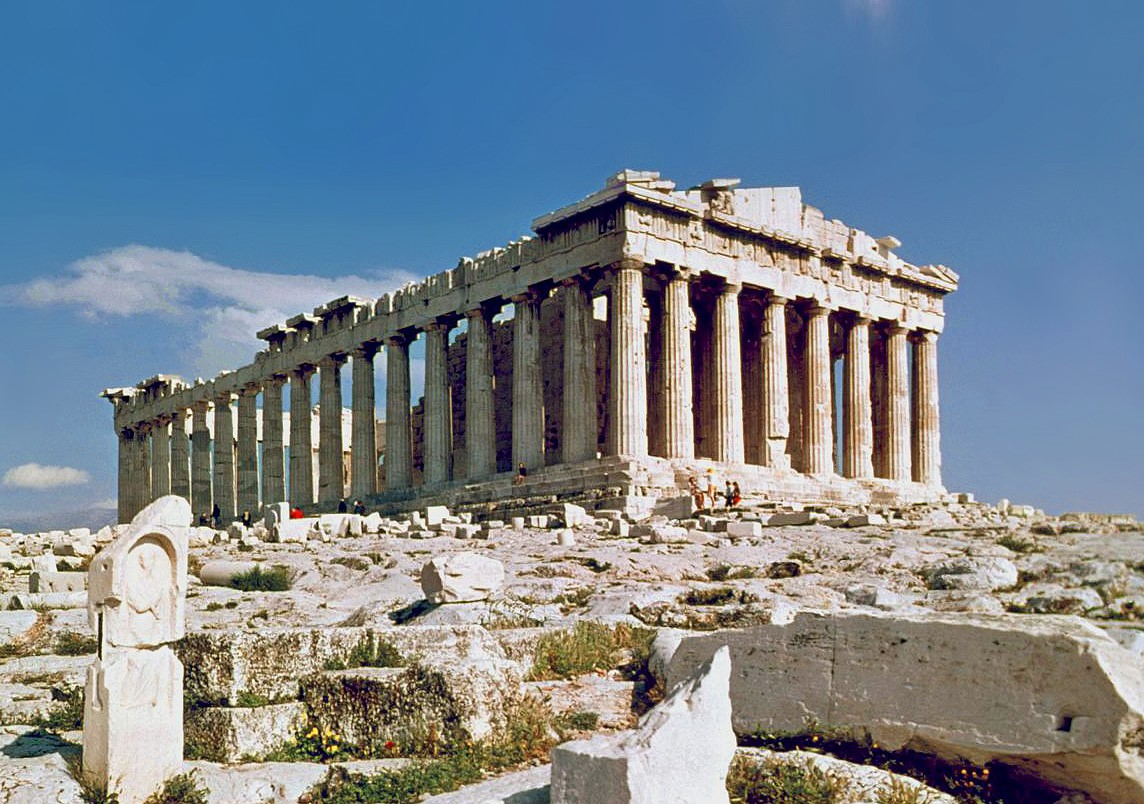 Parthenon, Athens Greece. Photo taken in 1978.